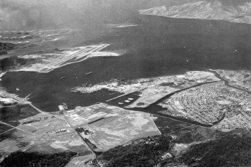 Aerial view of the U.S. Naval Base Subic Bay, Philippines, circa in 1969. A helicopter carrier is visible in the lower left center, the ship could be the last Essex-class LPH, USS Valley Forge (LPH-8), which was for the last time at Subic Bay in 1969.